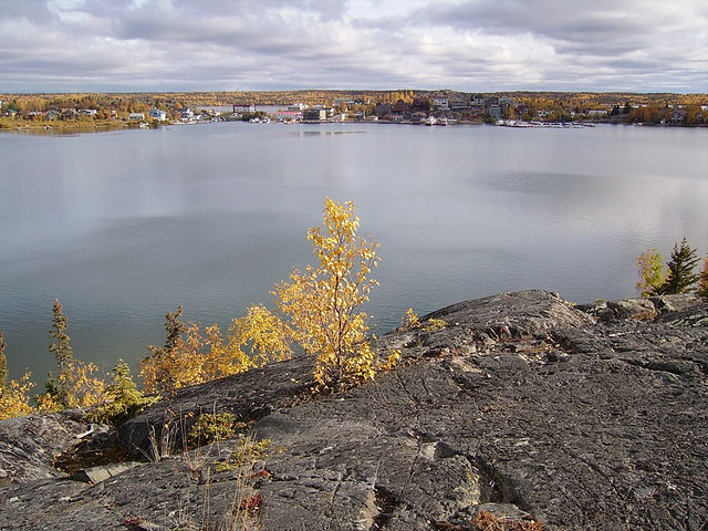 Great Slave Lake at Yellowknife